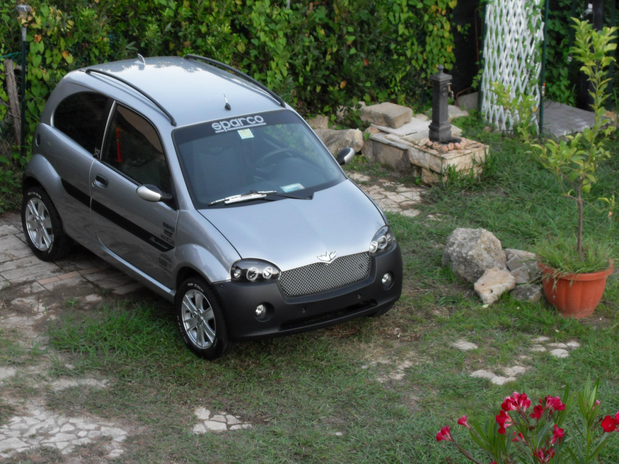 Chatenet automobilies